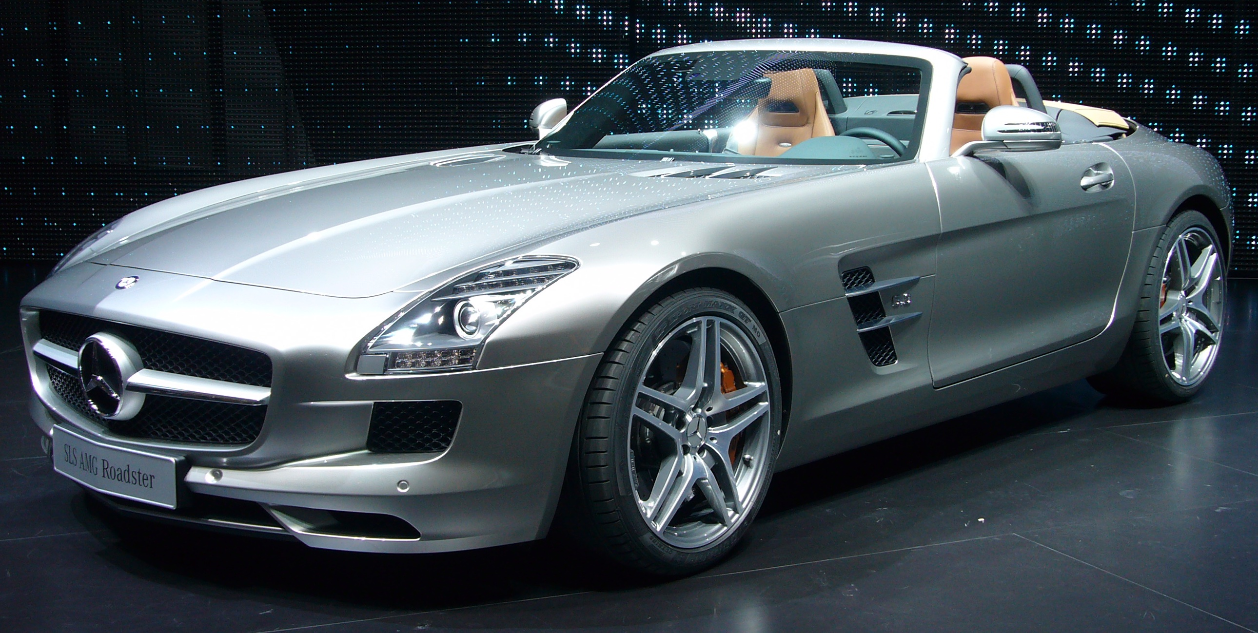 Mercedes-Benz SLS AMG Roadster at IAA Frankfurt 2011